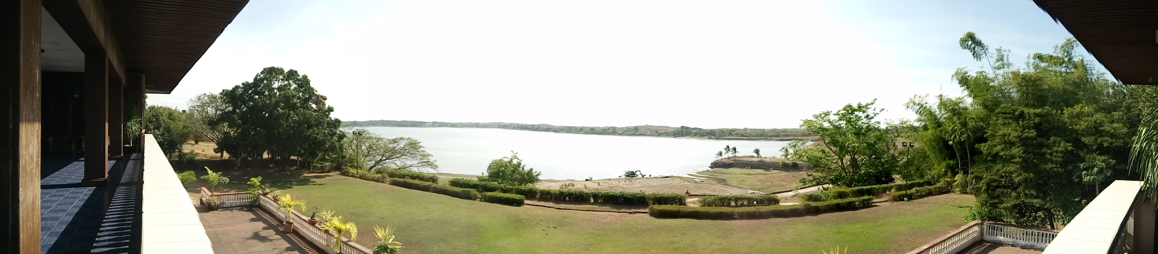 Paoay Lake as viewed from Malacañang of the North.